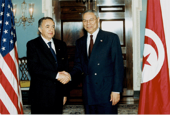 Habib Ben Yahia, Minister of Foreign Affairs of Tunisia, with Colin Powell, United States Secretary of State, during a meeting in Washington DC.